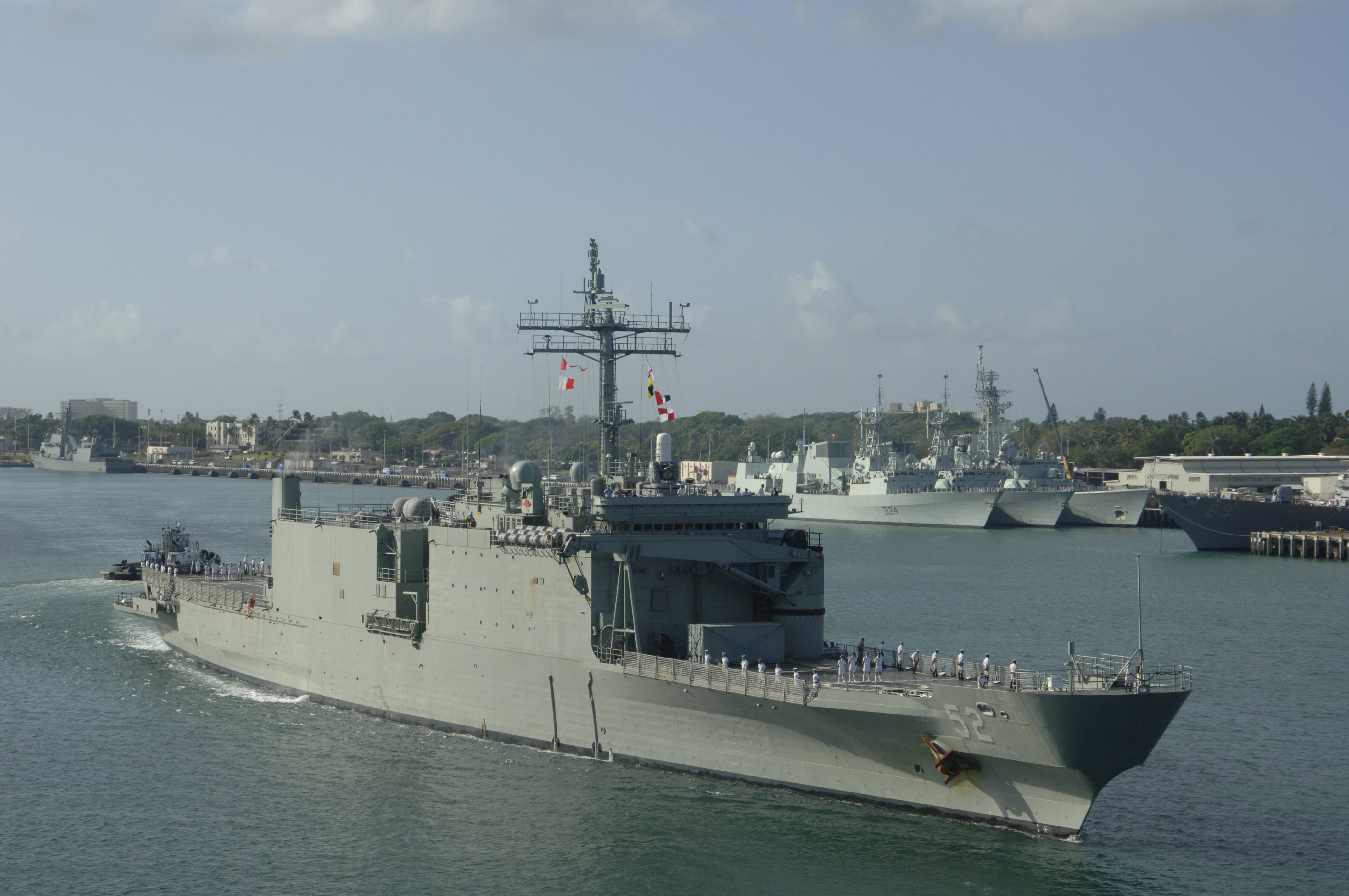 HMAS Manoora (LPA 52) departs from Pearl Harbor, Hawaii, to participate in exercise Rim of the Pacific (RIMPAC) July 6, 2006. Conducted in the waters off Hawaii, RIMPAC brings together military forces from Australia, Canada, Chile, Peru, Japan, the Republic of Korea, the United Kingdom and the United States.